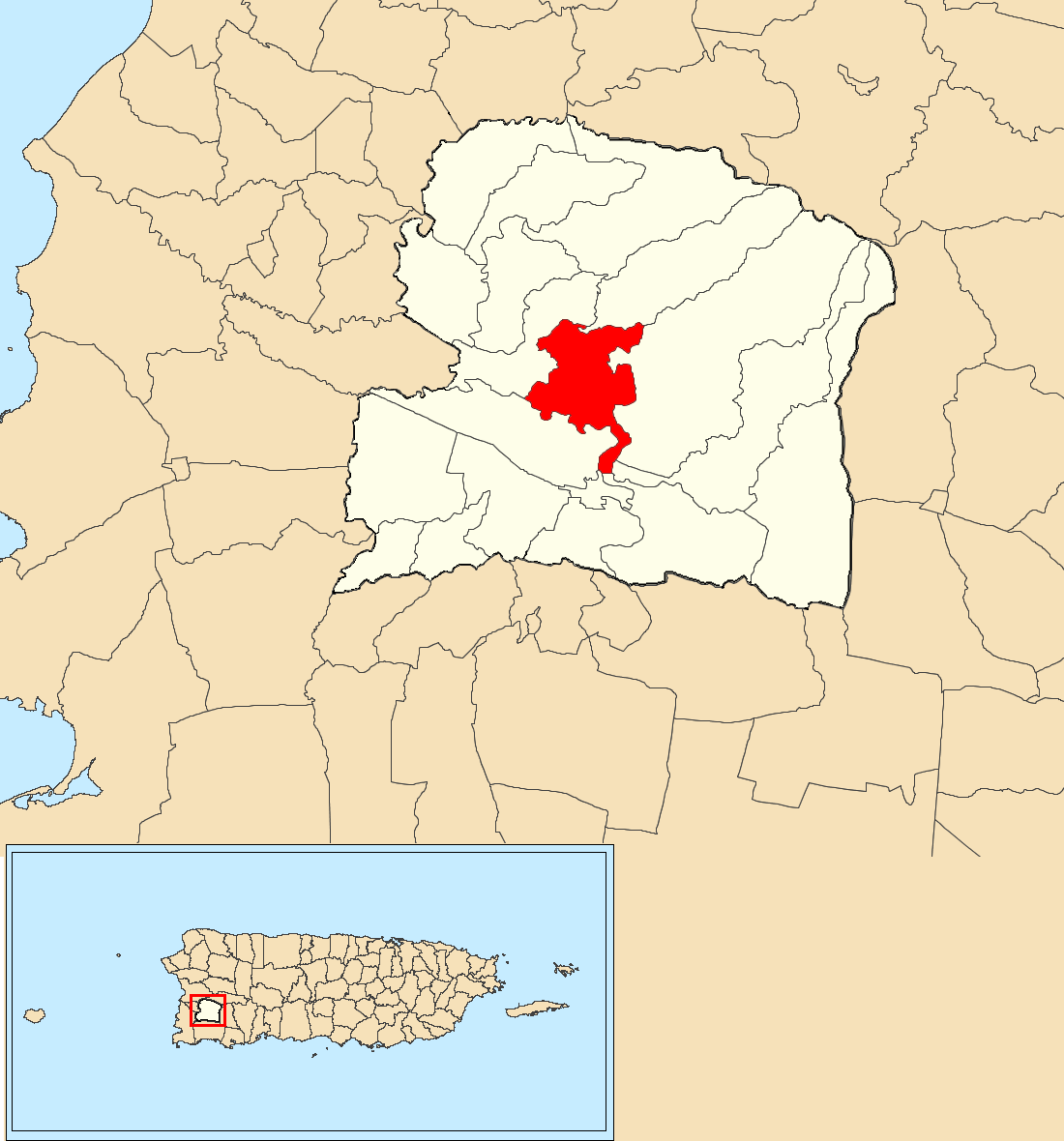 Caín Bajo, San Germán, Puerto Rico locator map